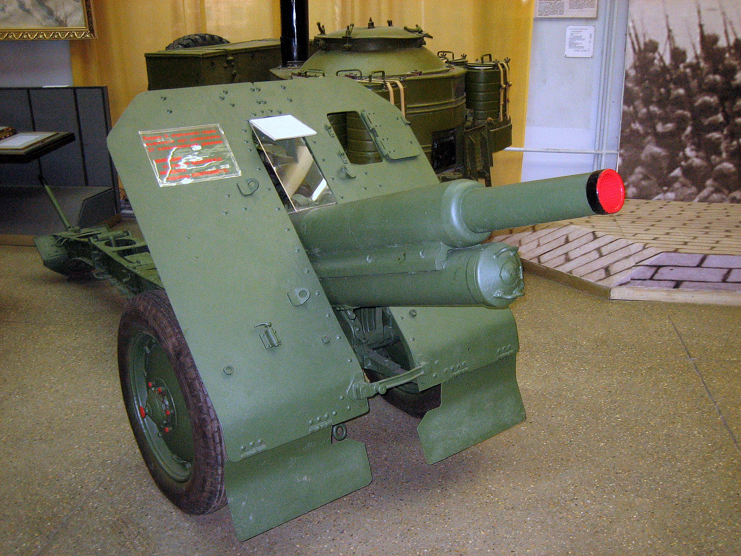 Soviet 76mm mountain gun M1938, displayed in Moscow Military Museum. Photo taken on 19 July, 2007. Source: Photo by me, User:Сайга20K.